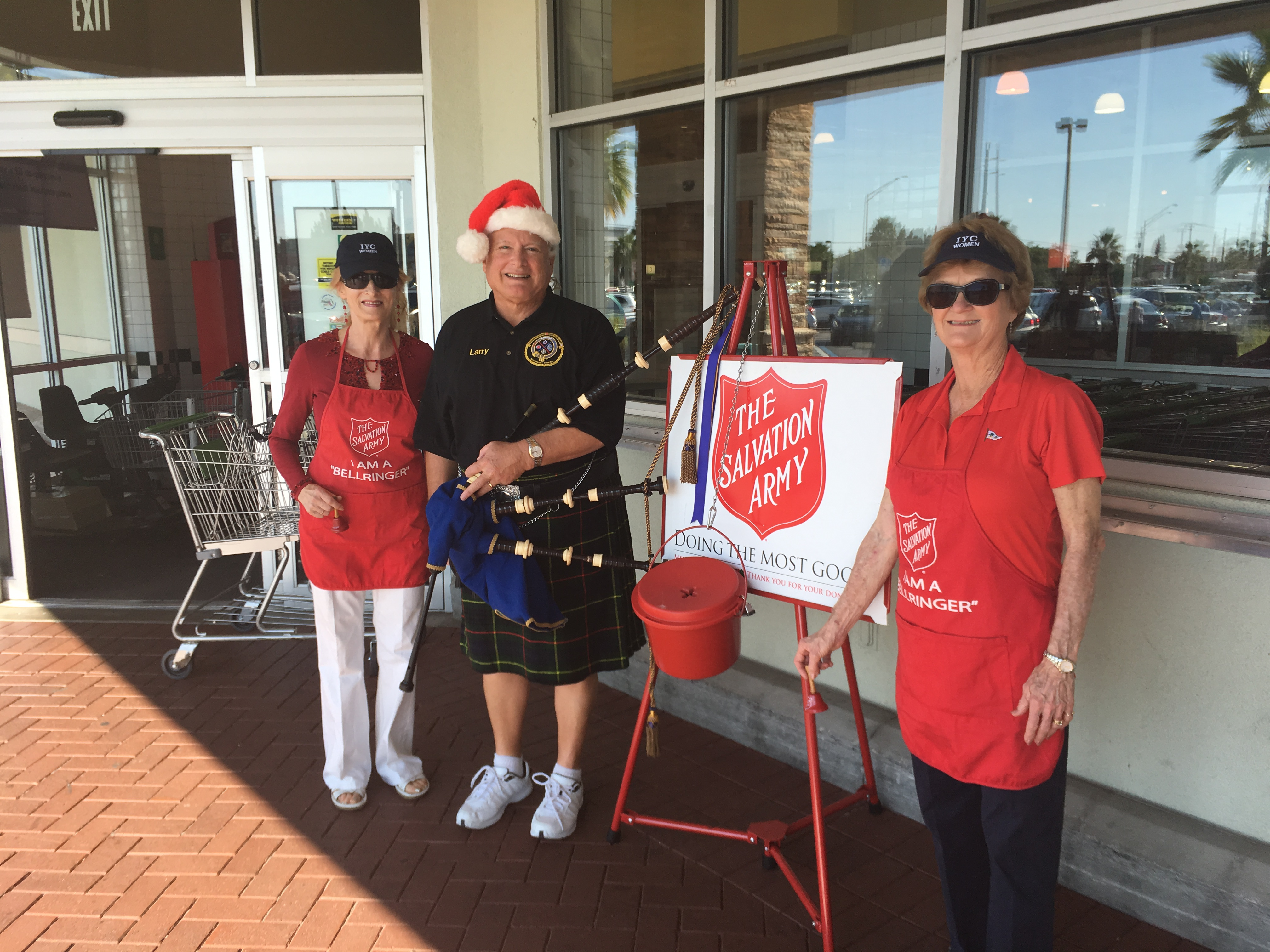 Daily Slideshow IYC Women